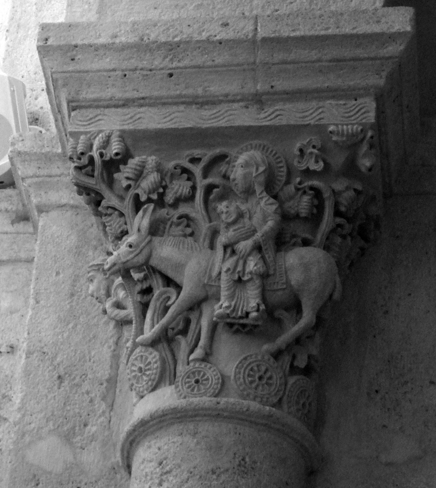 Saint-Andoche basilica, Saulieu, Burgundy, FRANCE,12th century.